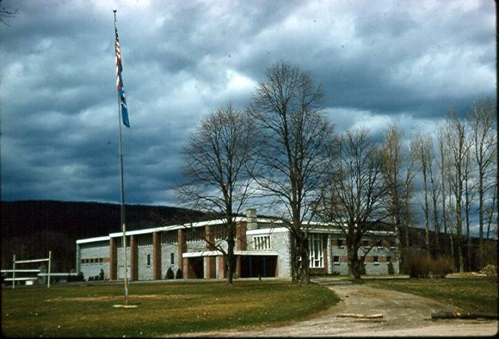 Photo of Stockbridge School in Stockbridge, Massachusetts 1954